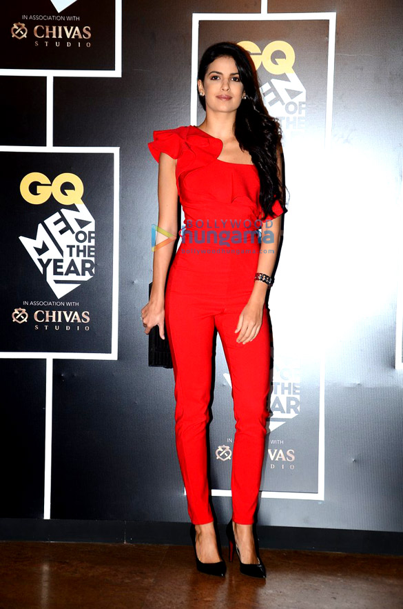 Natasha Stankovic at the red carpet of GQ Men of The Year Awards 2016